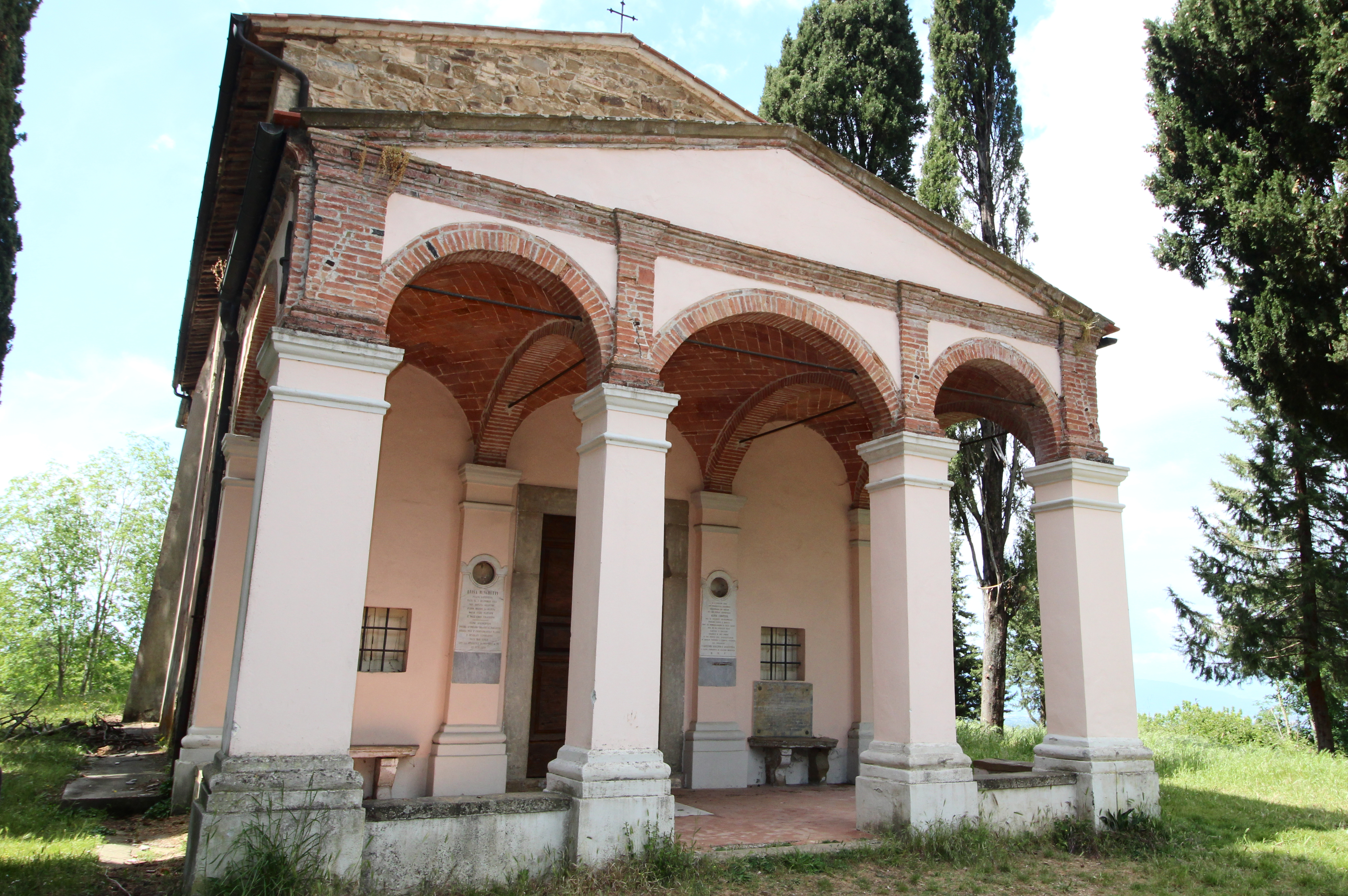 Sanctuary Madonna del Carmine, just outside Rivalto, hamlet of Chianni, Province of Pisa, Tuscany, Italy